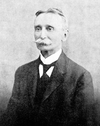 Sándor Márki (1853-1925) historian